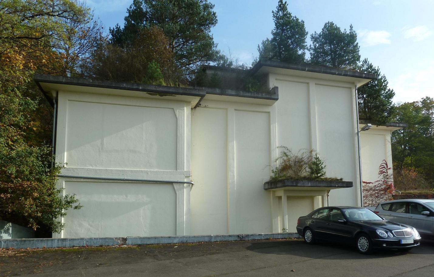 Former bomb plant in the Allendorf explosives factory.